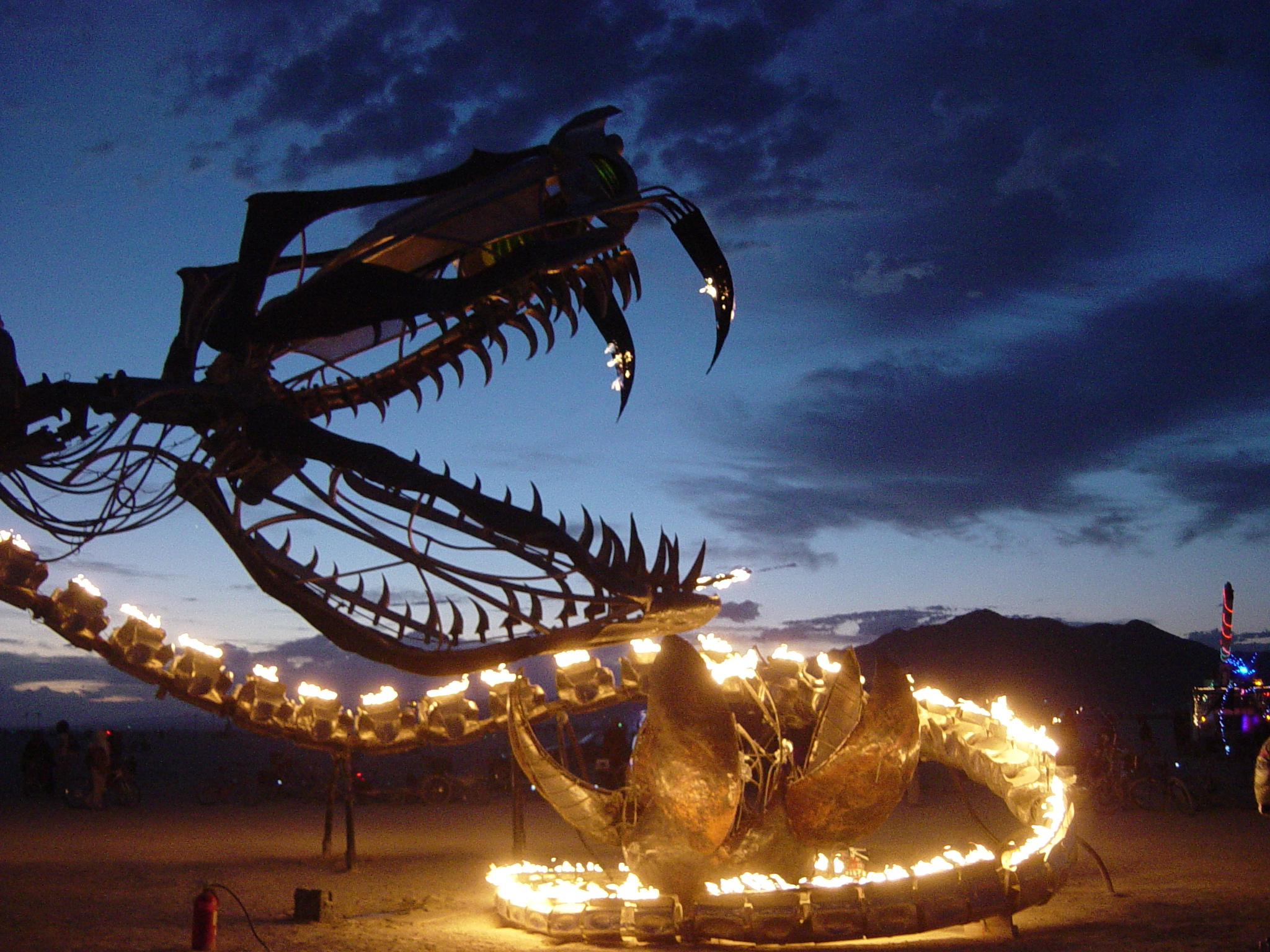 Serpent Mother Egg show at Dawn, Burning Man 2006